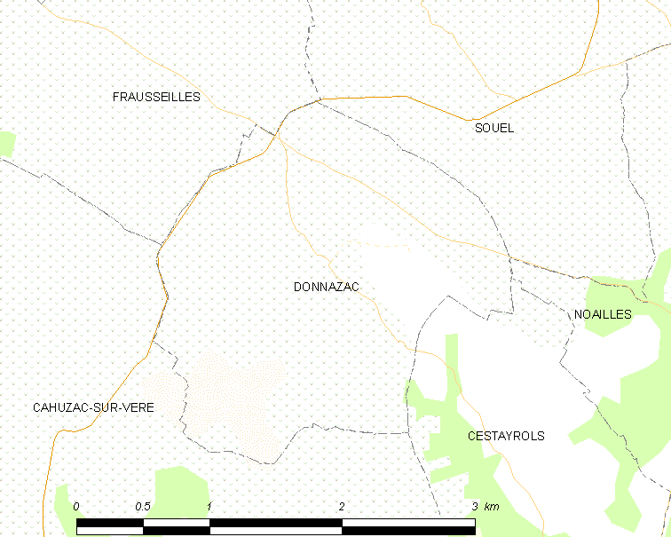 Map of French municipality Donnazac